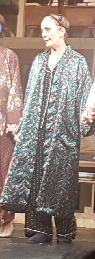 Themis Bazaka in "August, Osage County", played in "Theatre Dimitris Horn", Athens, Greece, November 2017